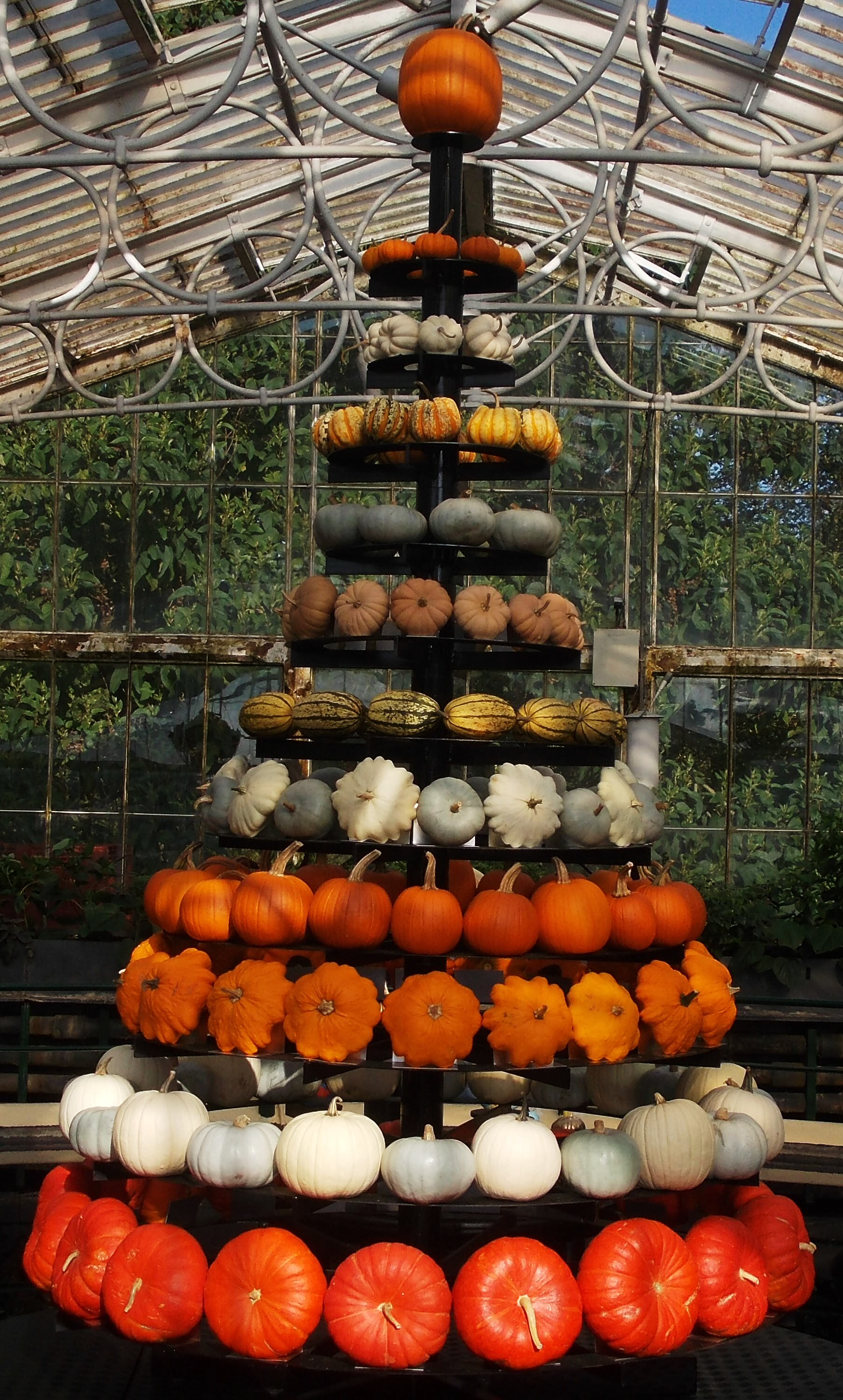 Display of Squash fruits, Kew Gardens Waterlily House